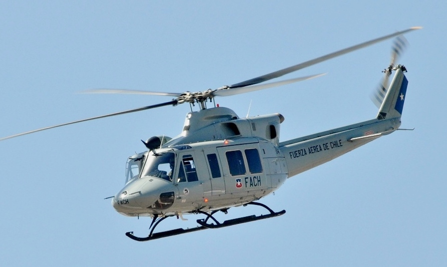 Pudahuel AFB, Santiago de Chile, March 2013